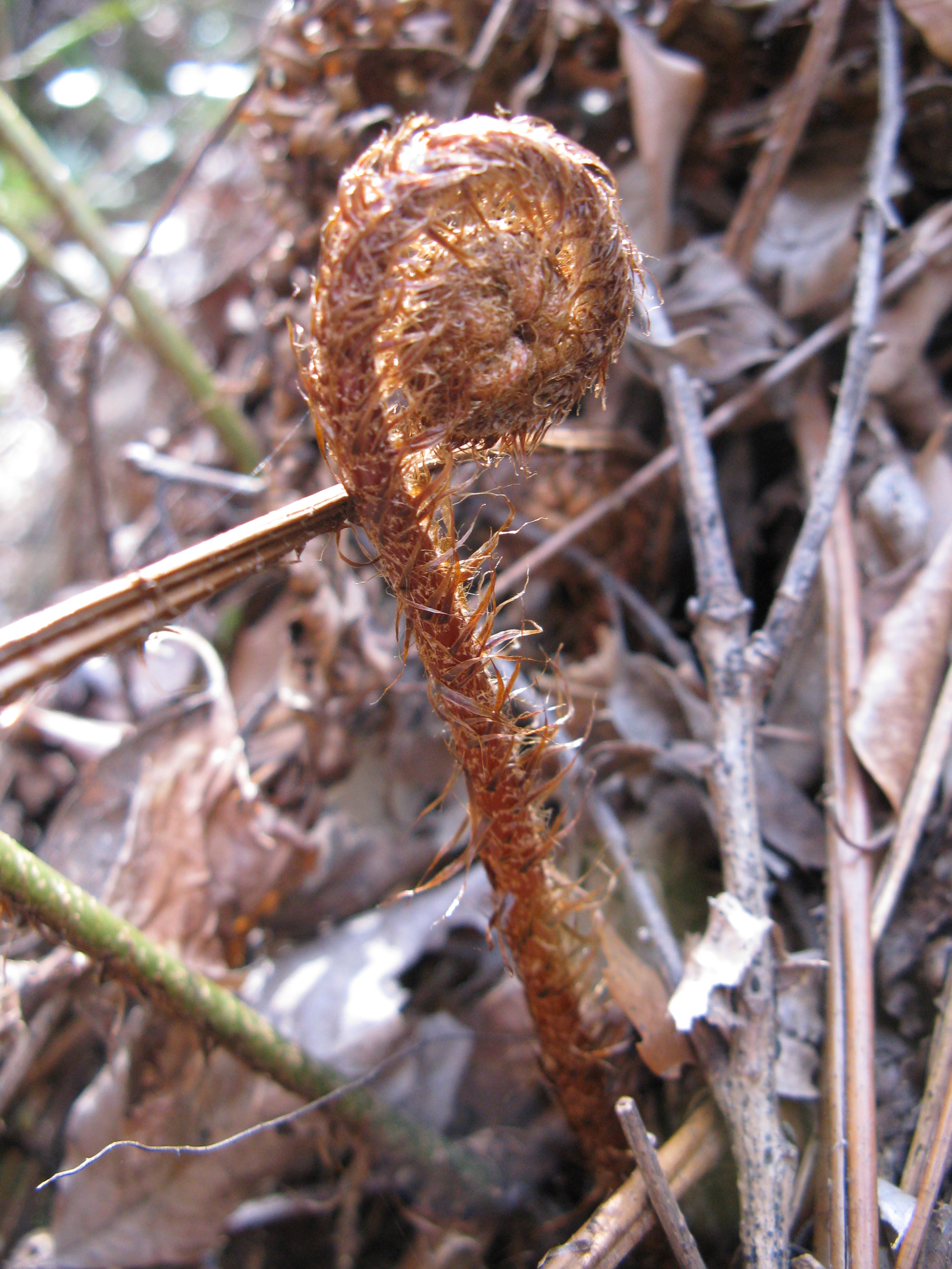 Scientific name Dryopteris erythrosora